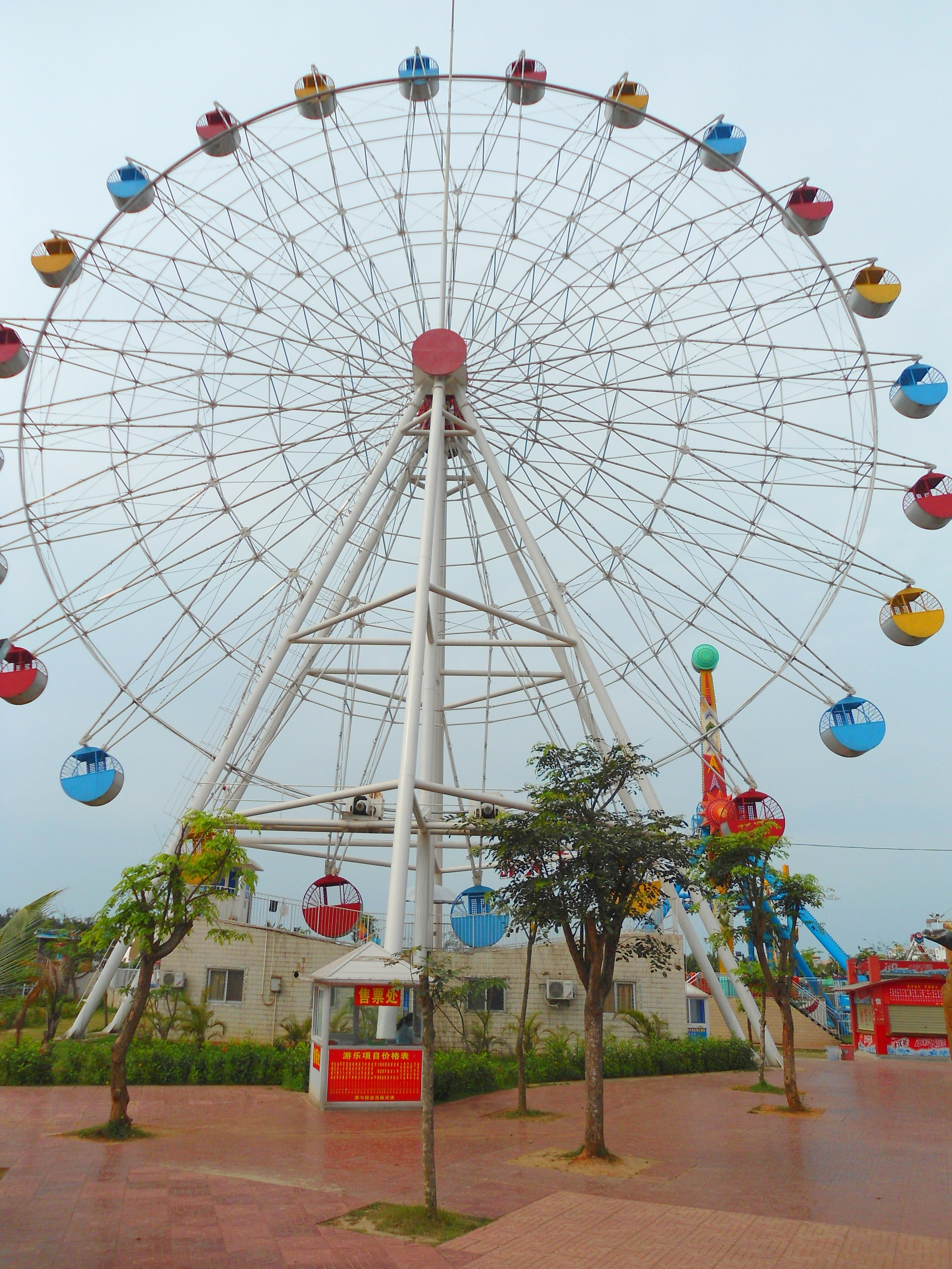 Baishamen Park, Haikou, Hainan Province, China.